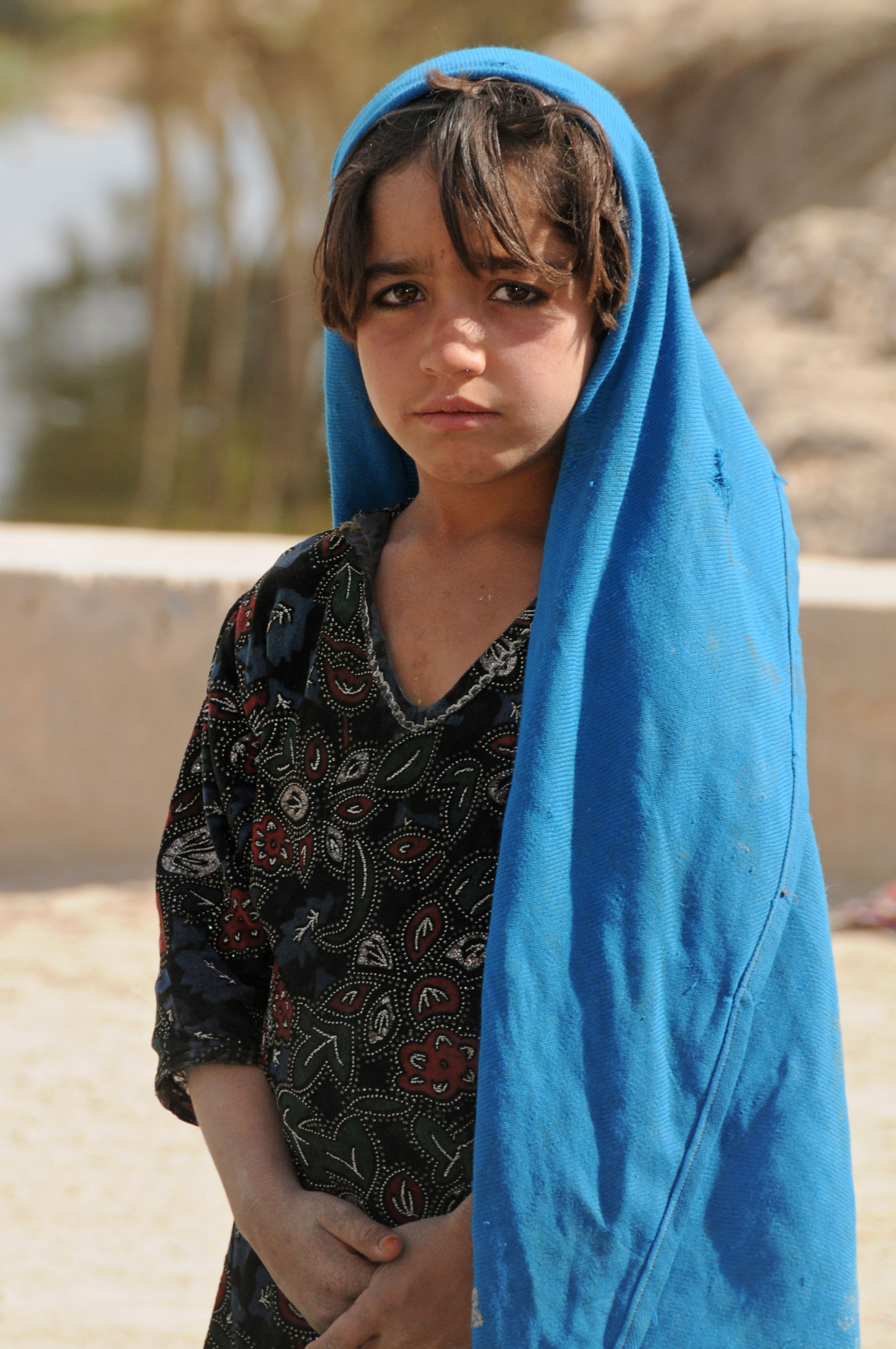 An Afghan girl in Deh Rawod, Afghanistan, November of 2008. Photo by John Scott Rafoss of the United States of America.